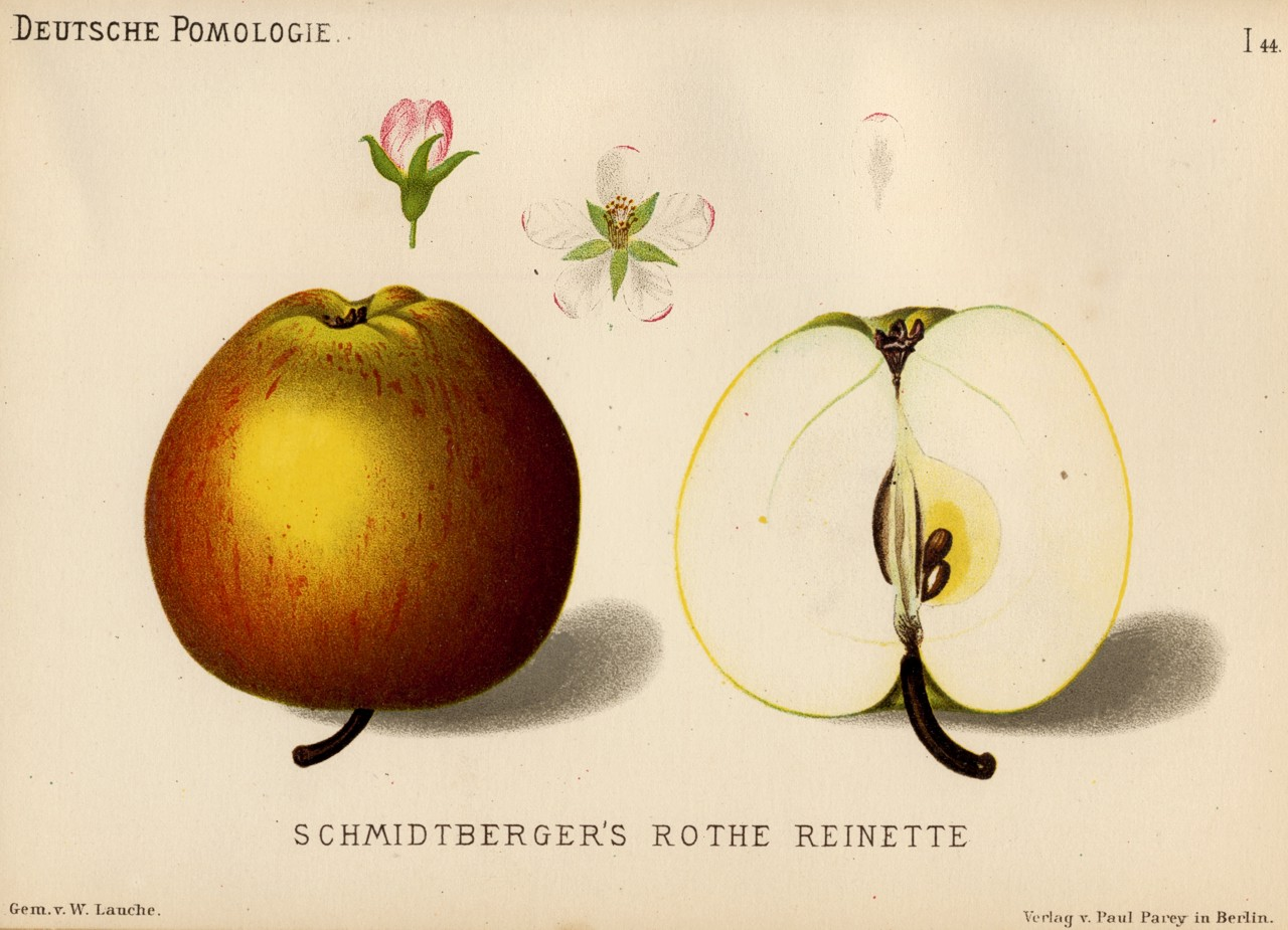 Illustration 44 from Deutsche Pomologie - Aepfel Apple cultivar shown: Schmidtberger's rothe Reinette